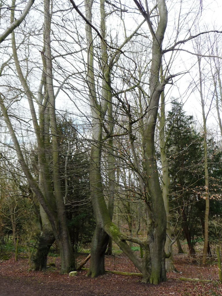 N for Nellie in Parlington's Wilderness